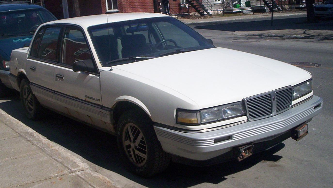 1985-1988 Pontiac Grand Am photographed in Montreal, Quebec, Canada.